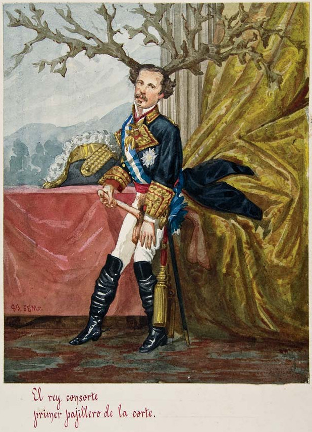 Francisco de Asis de Borbon. Text: "The king consort, first pajillero (masturbator) of the Court."